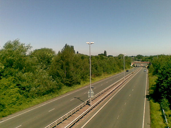 Kingsway South (A34) looking towards Manchester The camera was on the Bradshaw Hall footbridge.